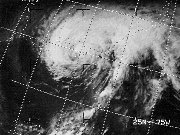 Hurricane Agnes of June 19th, 1972 as it approaches Florida